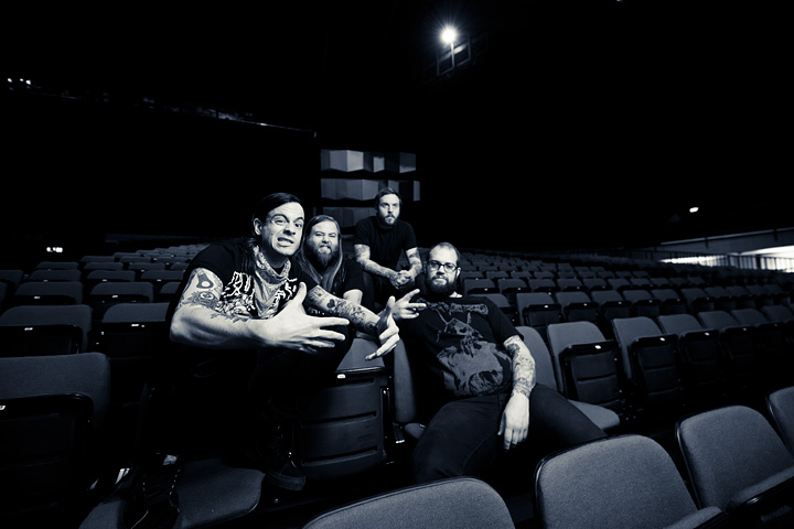 Cancer Bats at Stadthalle, Vienna, Austria